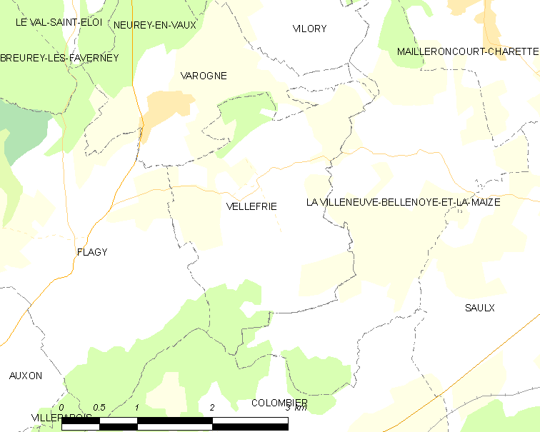 Map of French municipality